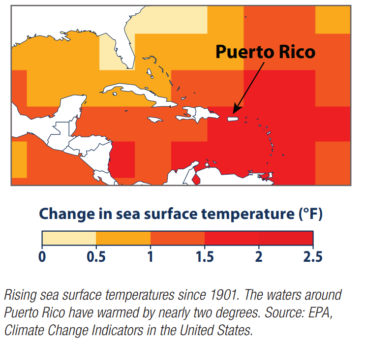 EPA map of warming in the Gulf of Mexico with caption.